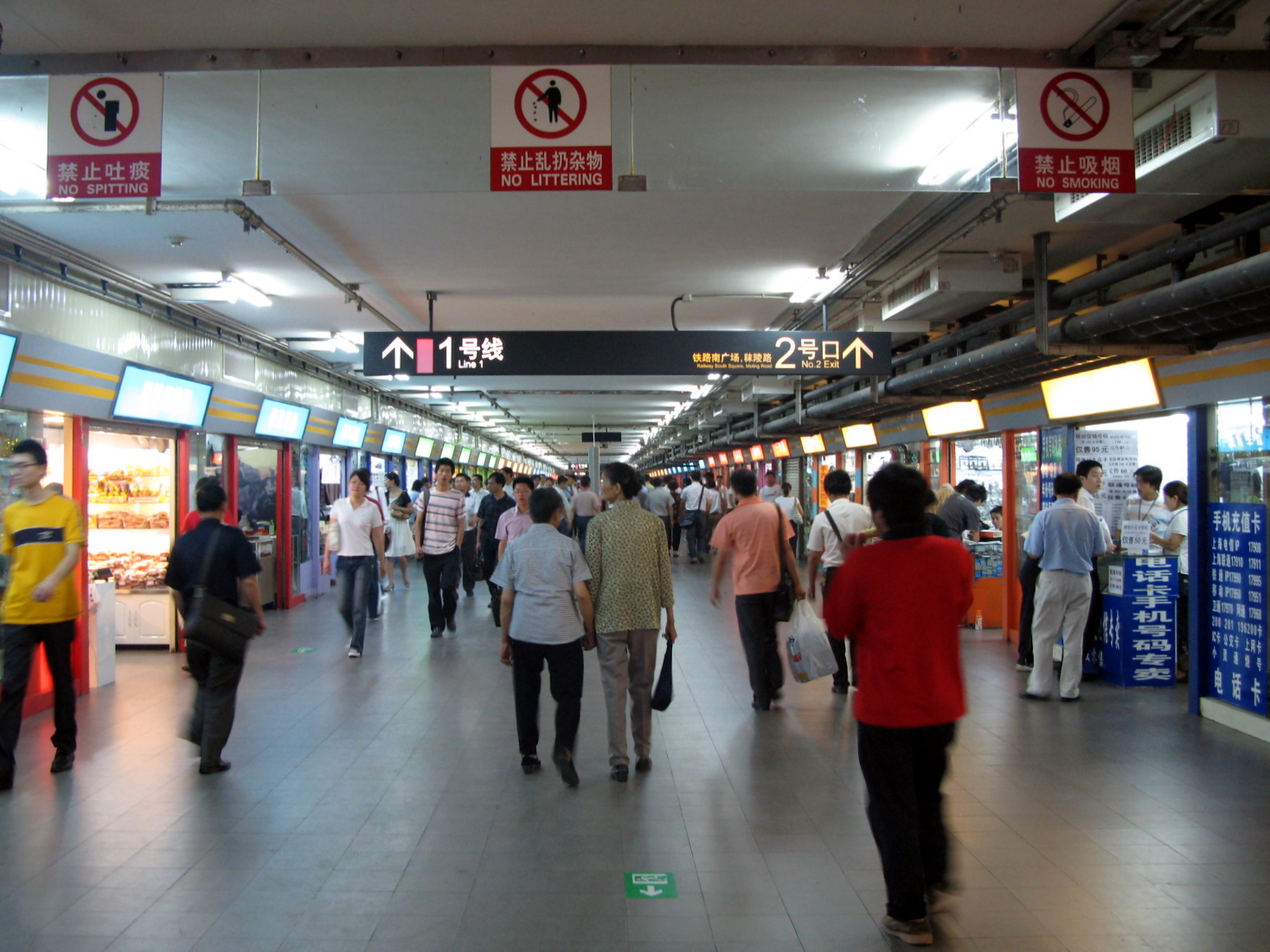 Shanghai Railway Station Underground Corridor